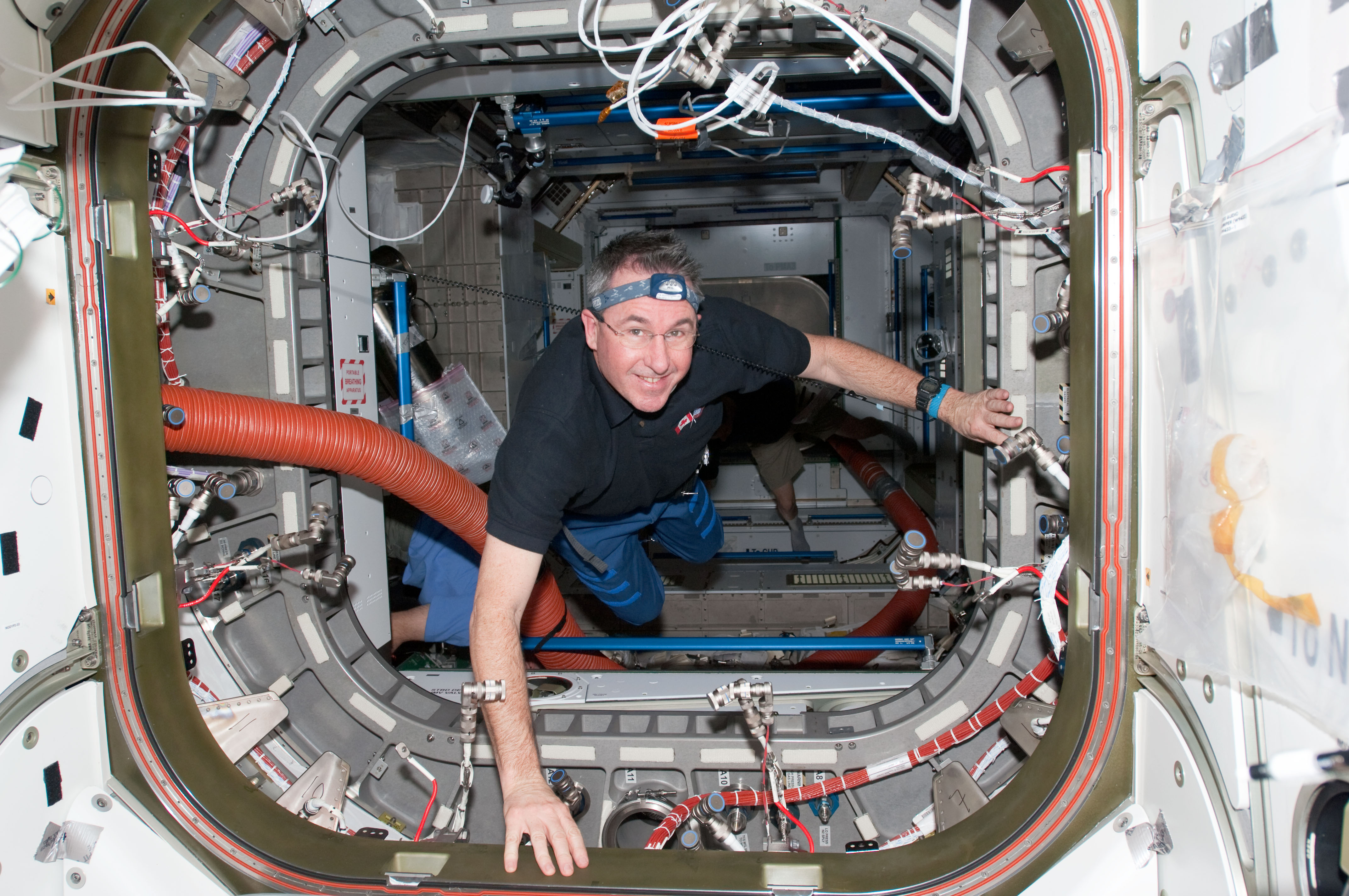 NASA astronaut Stephen Robinson, STS-130 mission specialist, works in the vestibule between the Unity node and the newly-installed Tranquility node of the International Space Station while space shuttle Endeavour remains docked with the station.